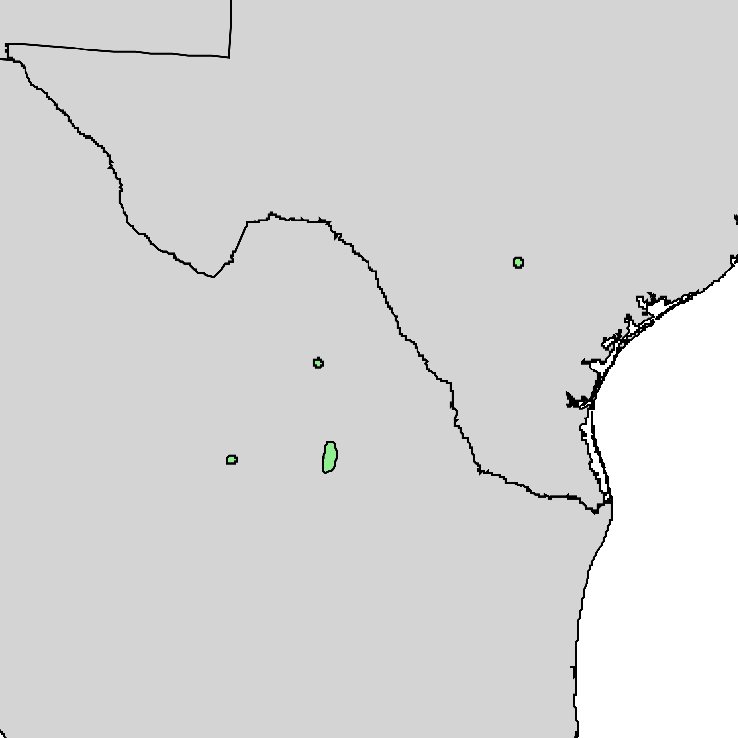 Natural distribution map for Celtis lindheimeri